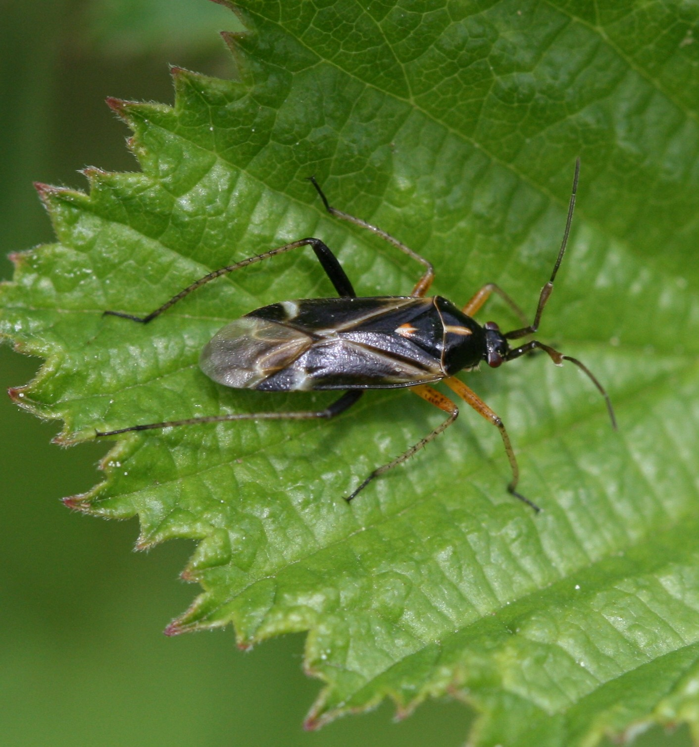 Male Harpocera thoracica. Common bug species on oak trees